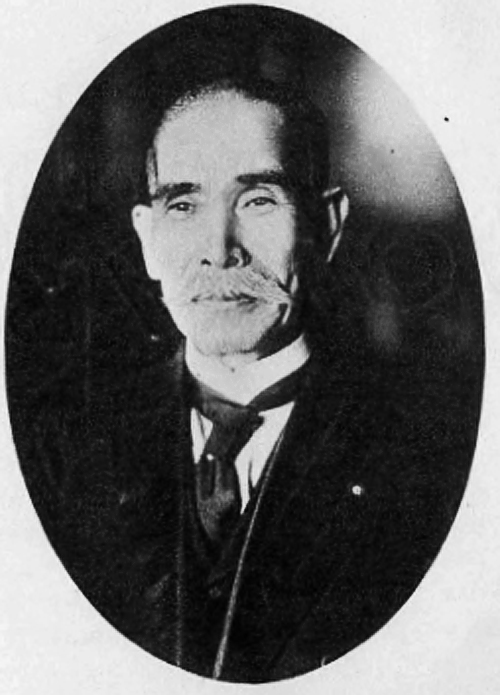 General Yamanasi Hanzô